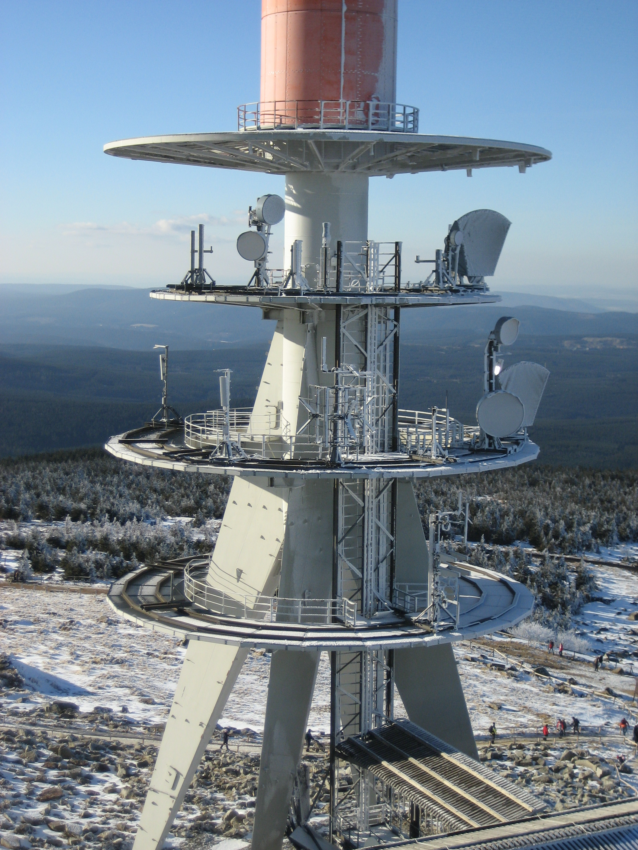 Brocken Transmitter